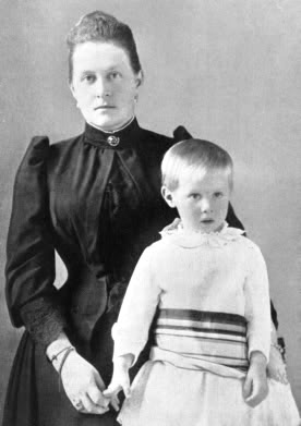 Grand Duchess Olga Constantinovna with her youngest son, Prince Christopher of Greece